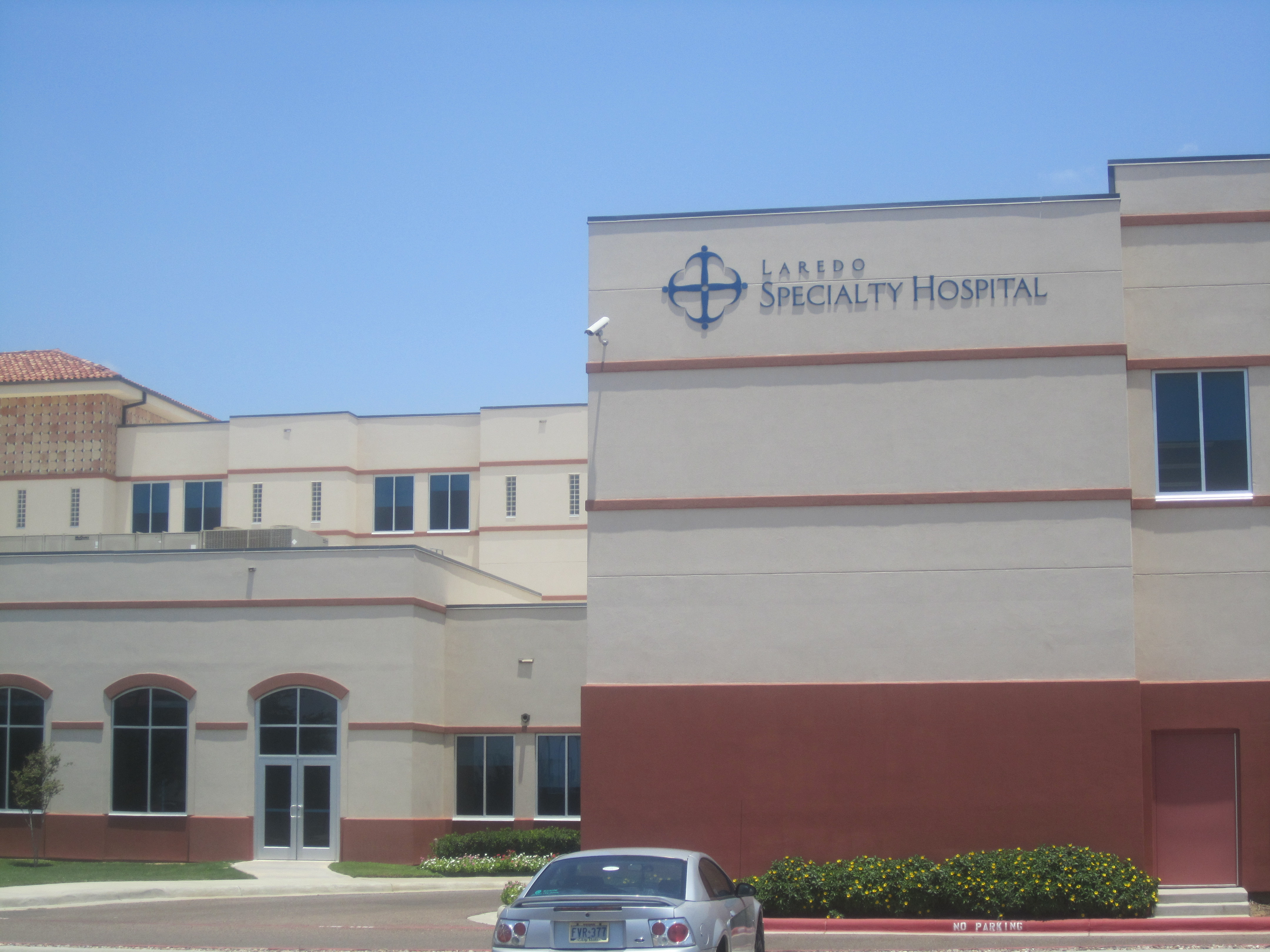 I took photo with Canon camera in Laredo, TX.